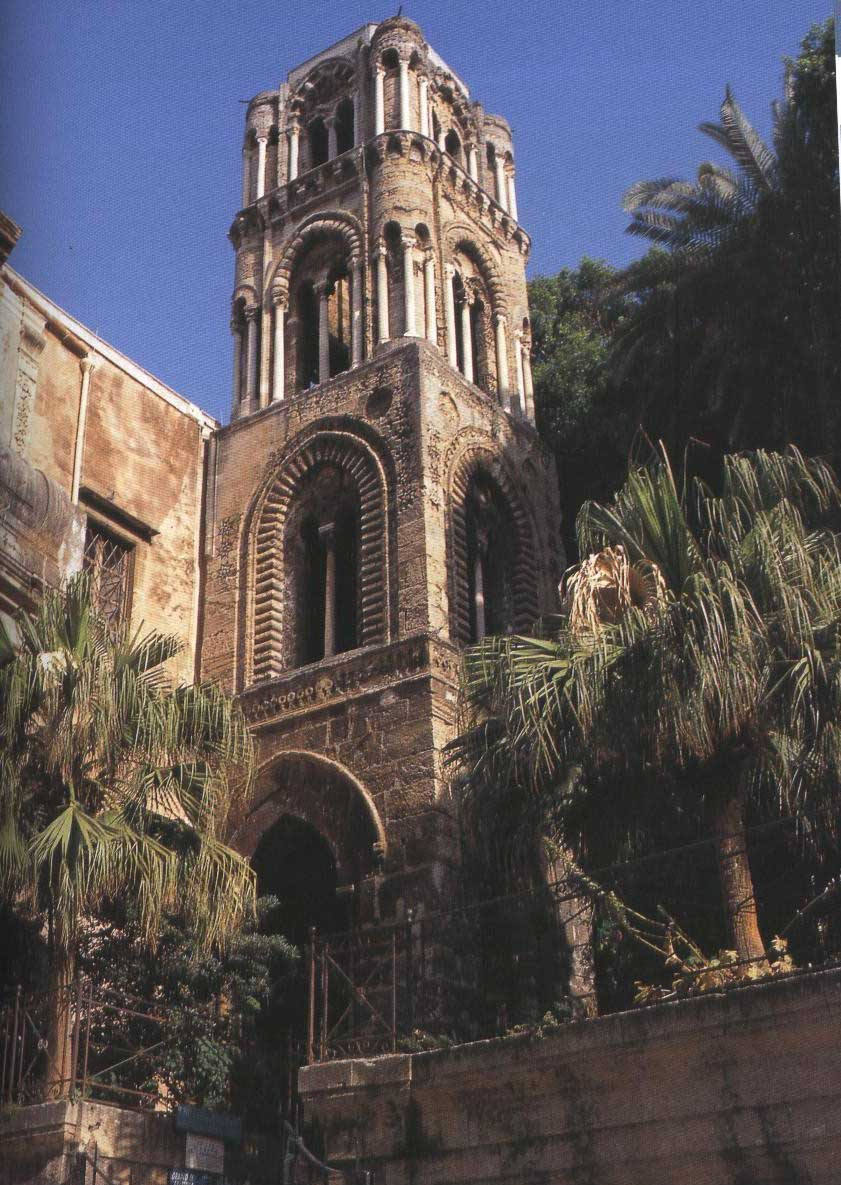 Campanila (Martorana)